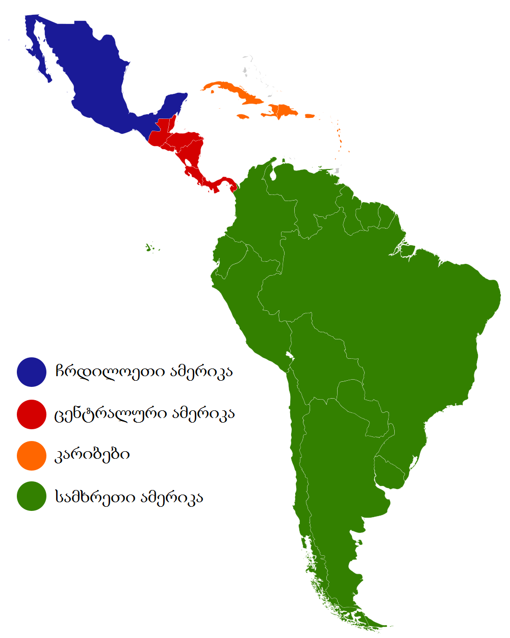 Map of Latin America regions in georgian